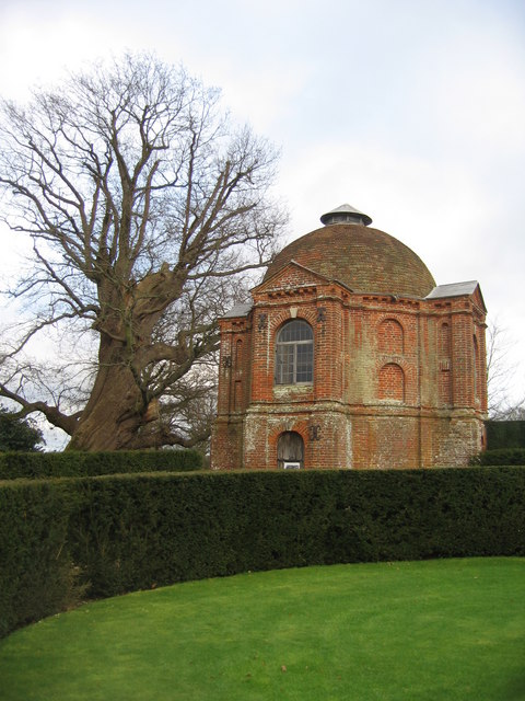 One Hundred Guinea Oak & Summerhouse Two popular spots during a visit to The Vyne.